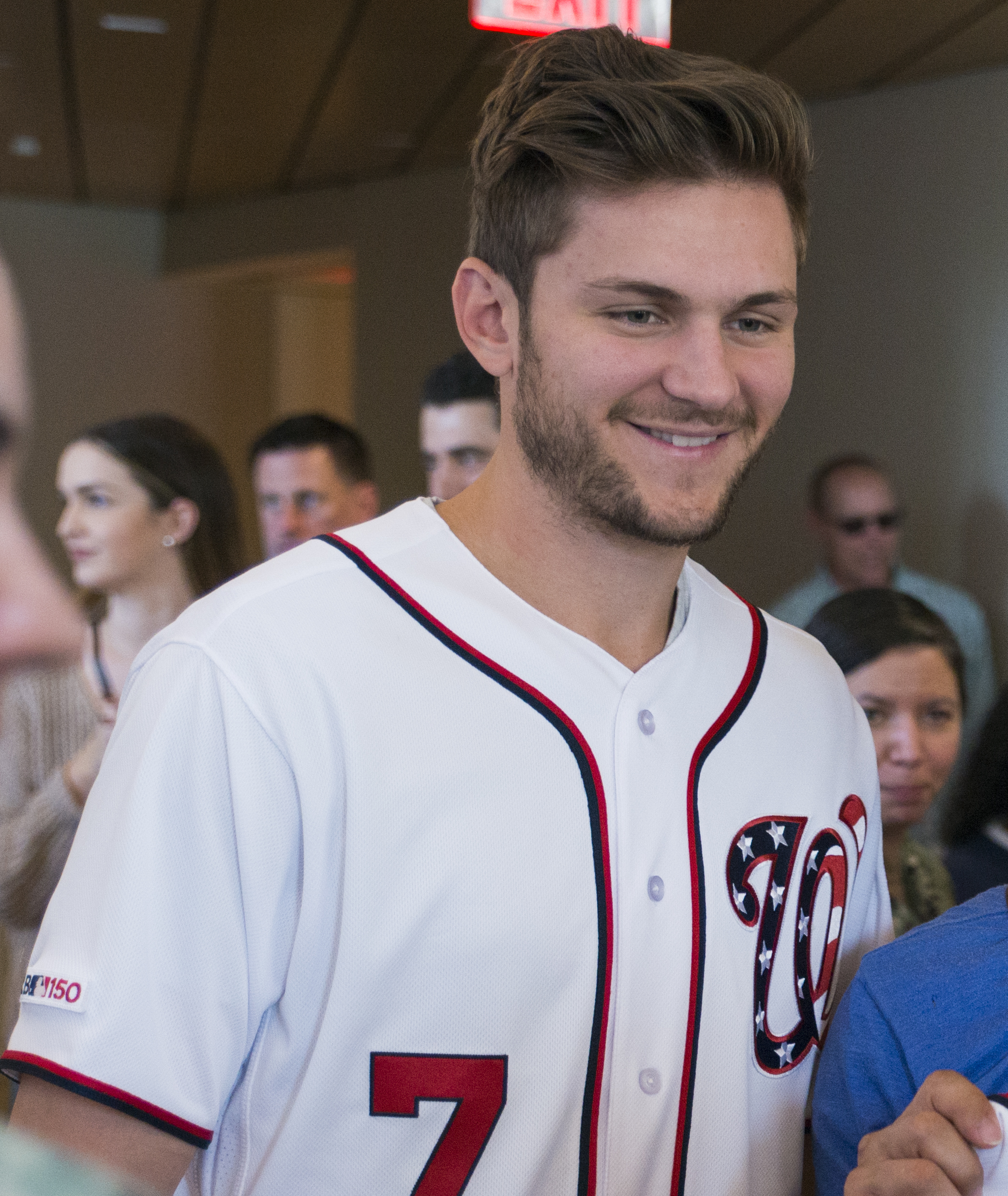 Washington National player Trea Turner signed swag and posed for a photo at the USO Warrior and Family Center Bethesda during a community outreach event April 30, 2019, at Naval Support Activity Bethesda. (U.S. Navy photo by Mass Communication Specialist 2nd Class Julio Martinez Martinez)